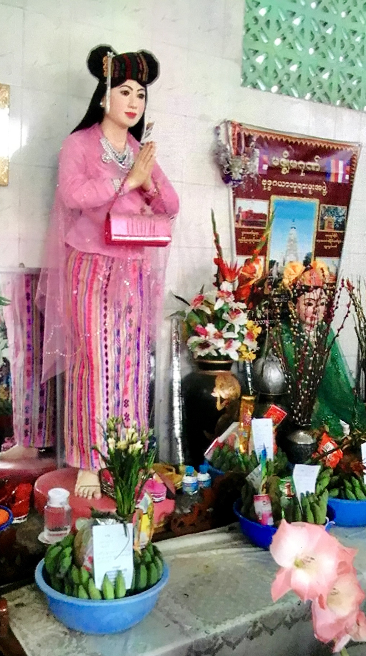 Saw Mon Hla was the chief queen of King Anawrahta of Pagan. She is known in Burmese history for her beauty and her eventual exile instigated by other rival queens.